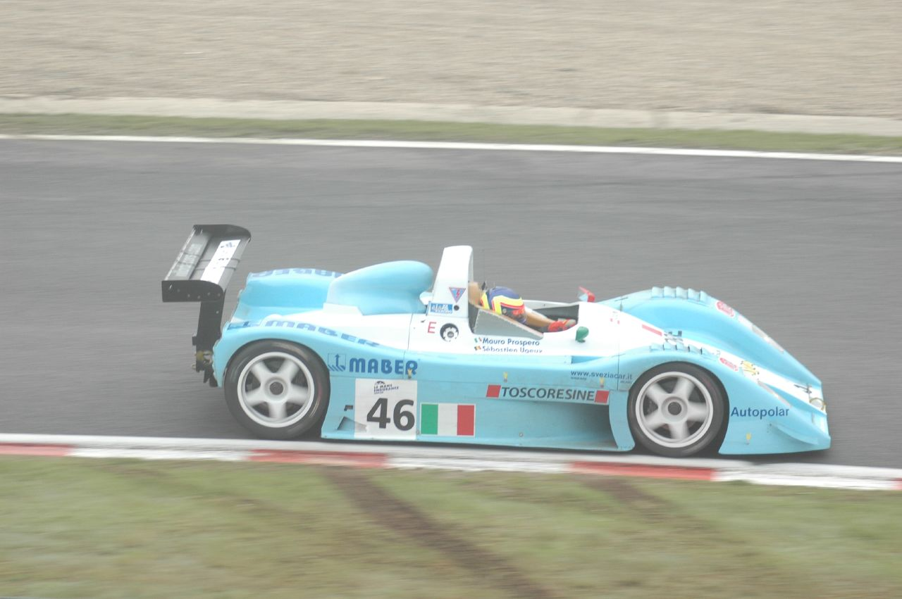 Scuderia Villorba Corse's Lucchini SR2-Alfa Romeo at the 2005 1000km of Spa